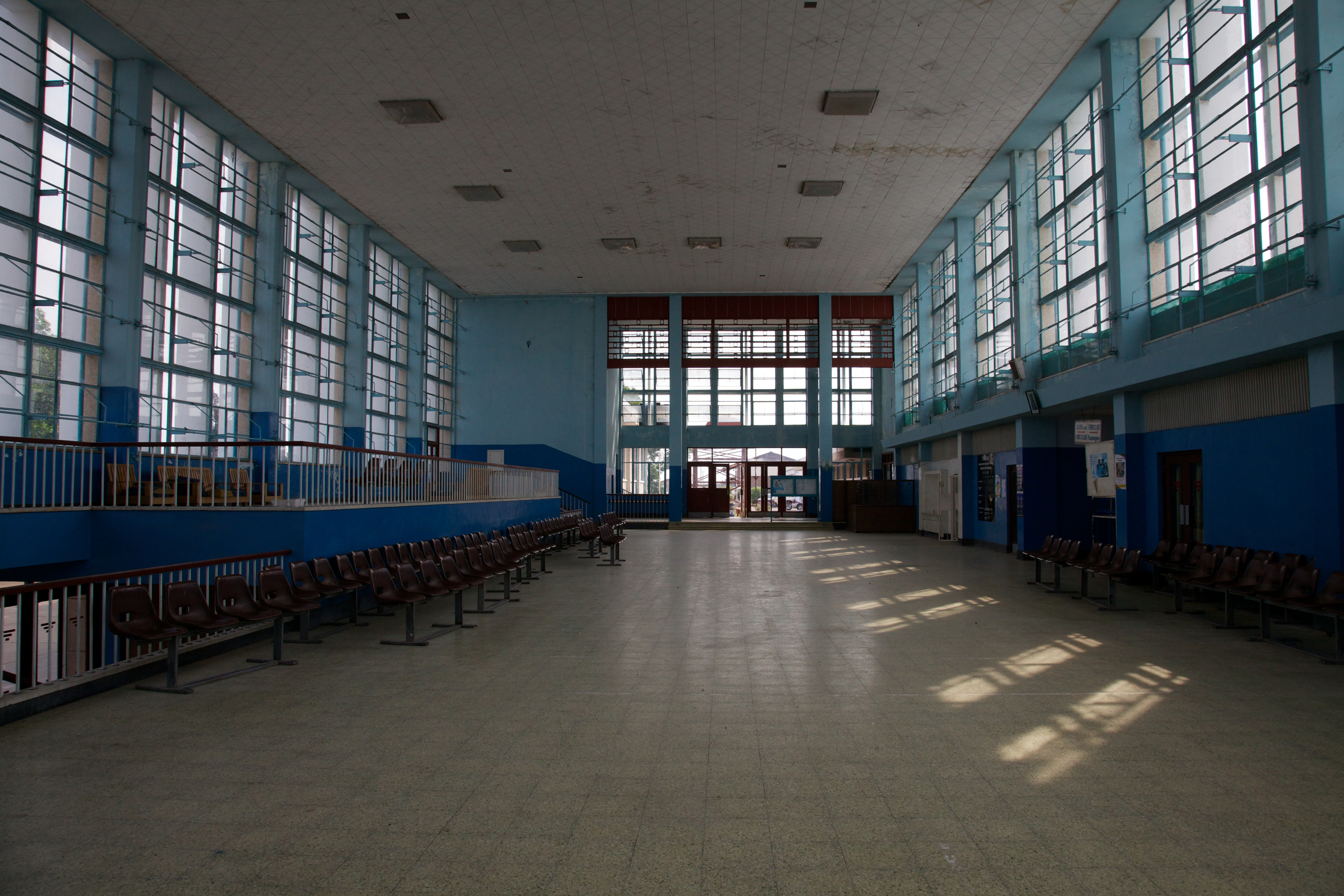 End of the line for the Tazara Railway in Zambia. The Tazara Railway was built to haul copper from the vicinity of Kapiri Mposhi to the Indan Ocean at Dar es Salaam.